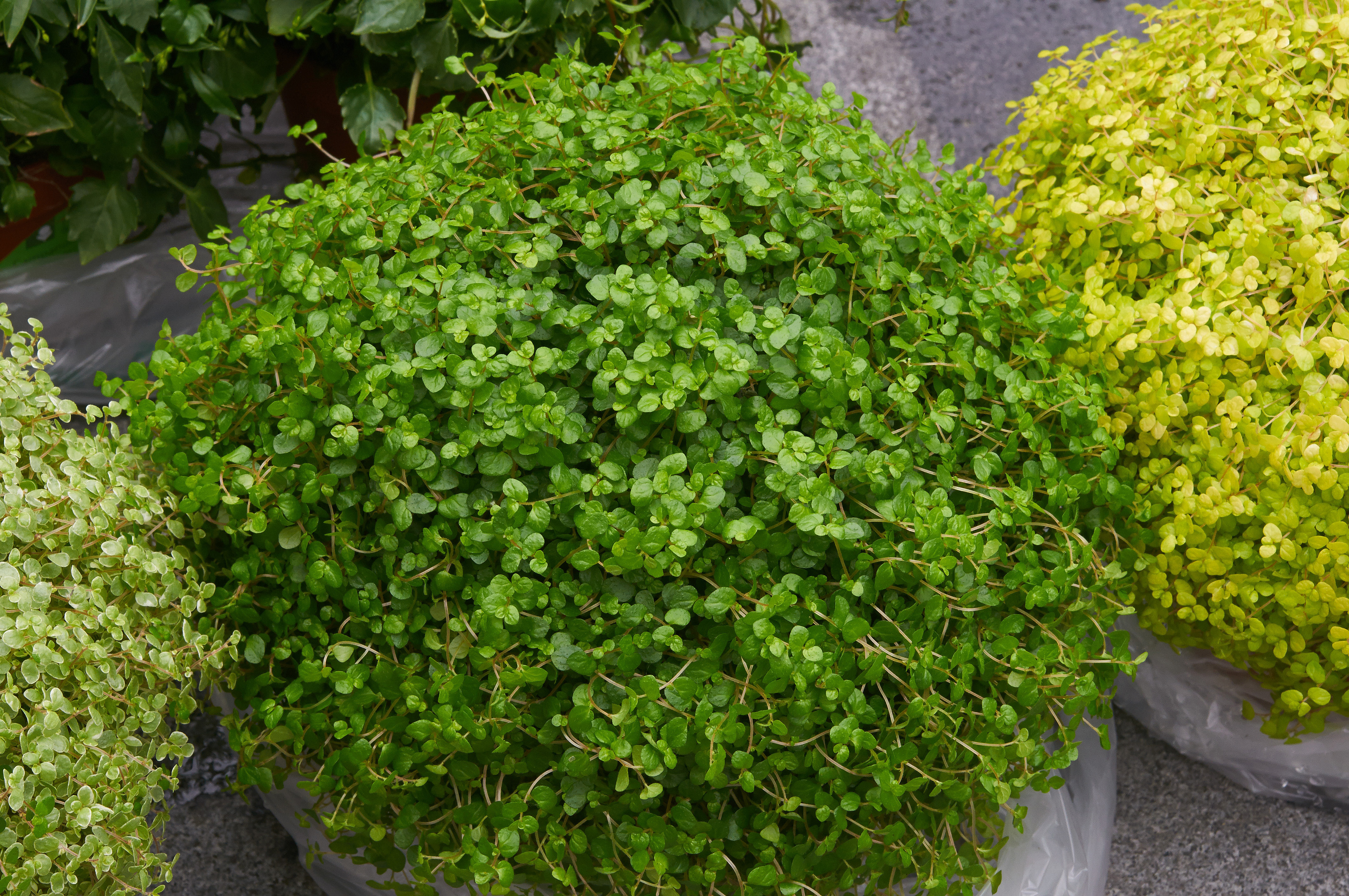 Soleirolia soleirolii